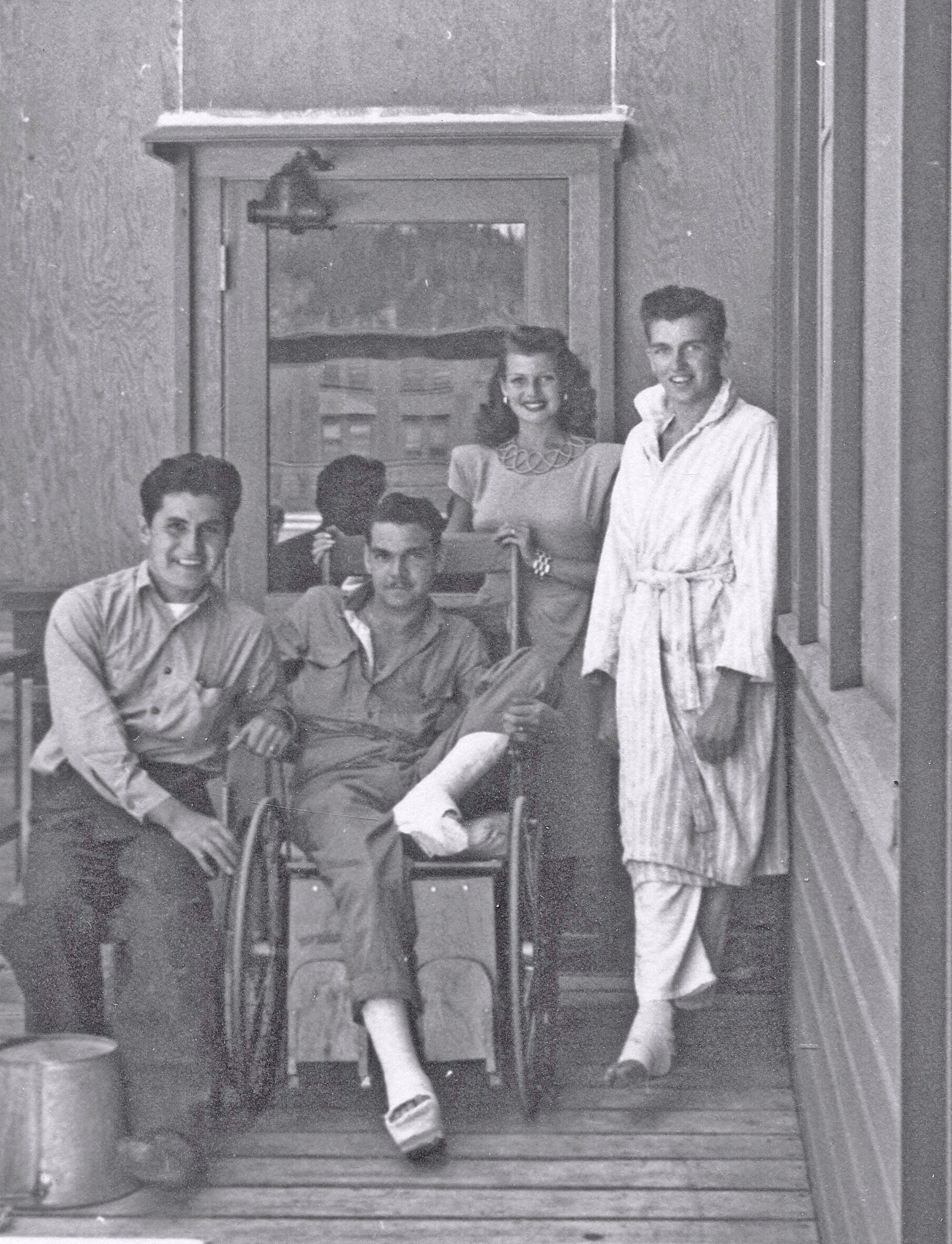 Rita Hayworth visiting Frank Gritts' hospital ward during WWII; Gritts is on the left.